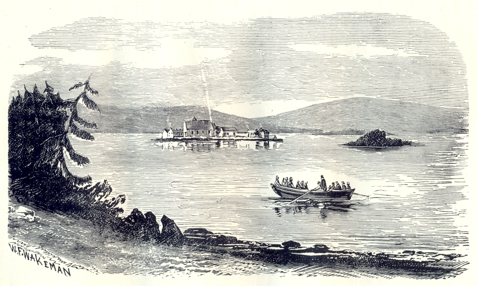 Pilgrims getting rowed to Station Island on Lough Derg, County Donegal, Ireland.